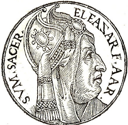 Eleasar was a Levite priest in the Hebrew Bible. As the son of Aaron, he succeed his father as the second Kohen Gadol (High Priest).